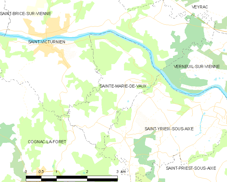 Map of French municipality Sainte-Marie-de-Vaux